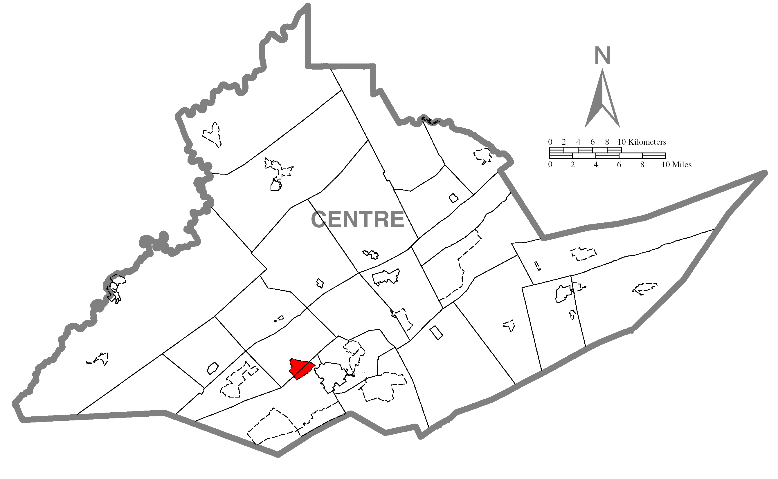 A map of Centre County showing Park Forest Village, Pennsylvania (alternate) highlighted on the map.